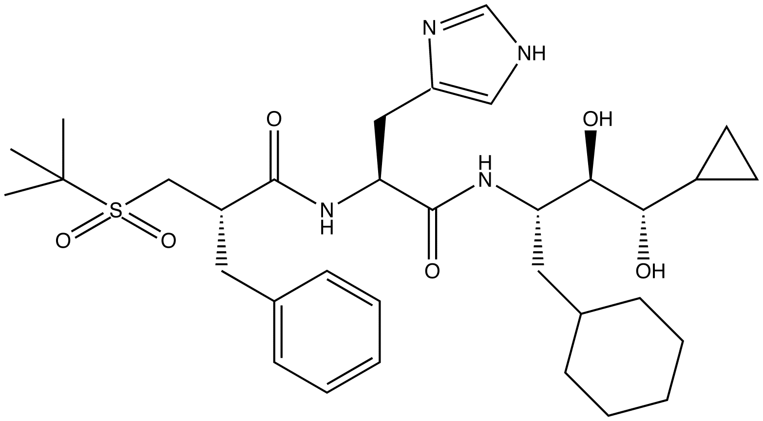 Skeletal formula of remikiren. Created using CS ChemDraw Ultra